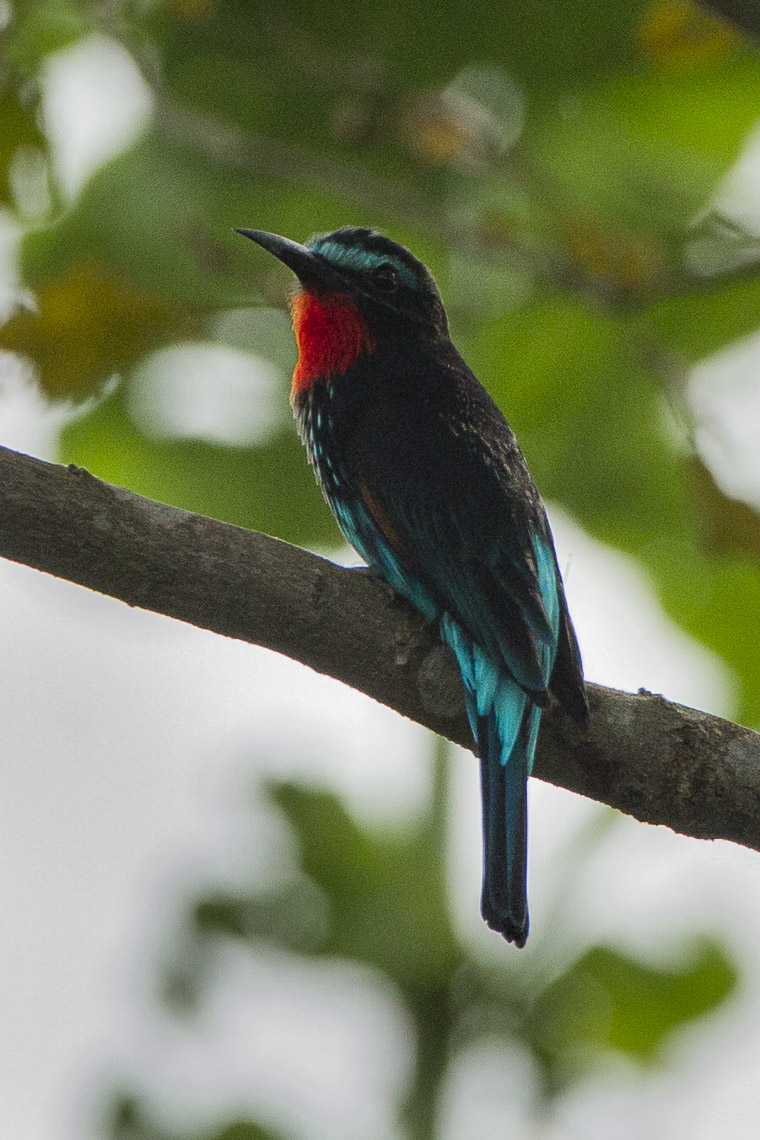 A Black Bee-eater (Merops gularis) near of the Kakum National Park (Ghana)